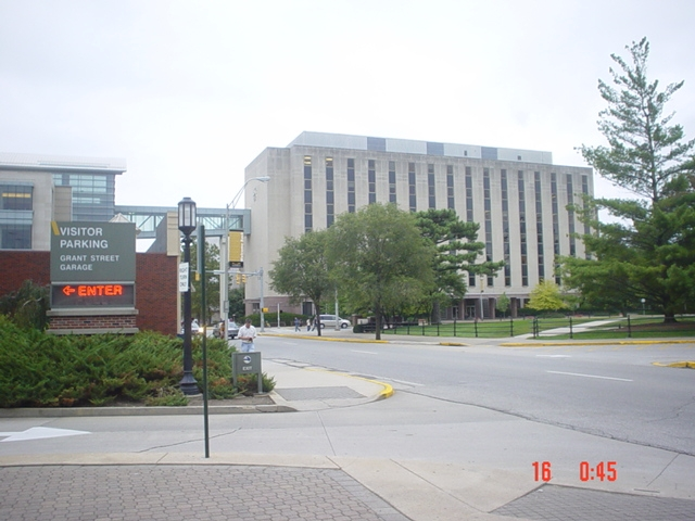 Purdue University Krannert School of Management building in West Lafayette.